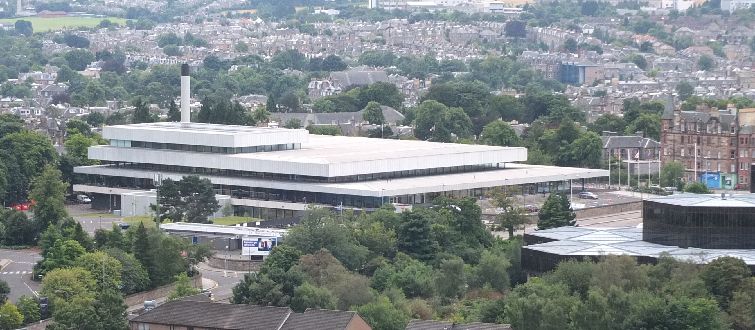 Royal Commonwealth Pool in Edinburgh as seen from the Salisbury Crags.